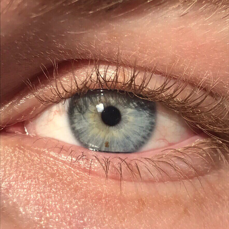 A close up of a blue/green human iris (with visible freckle).